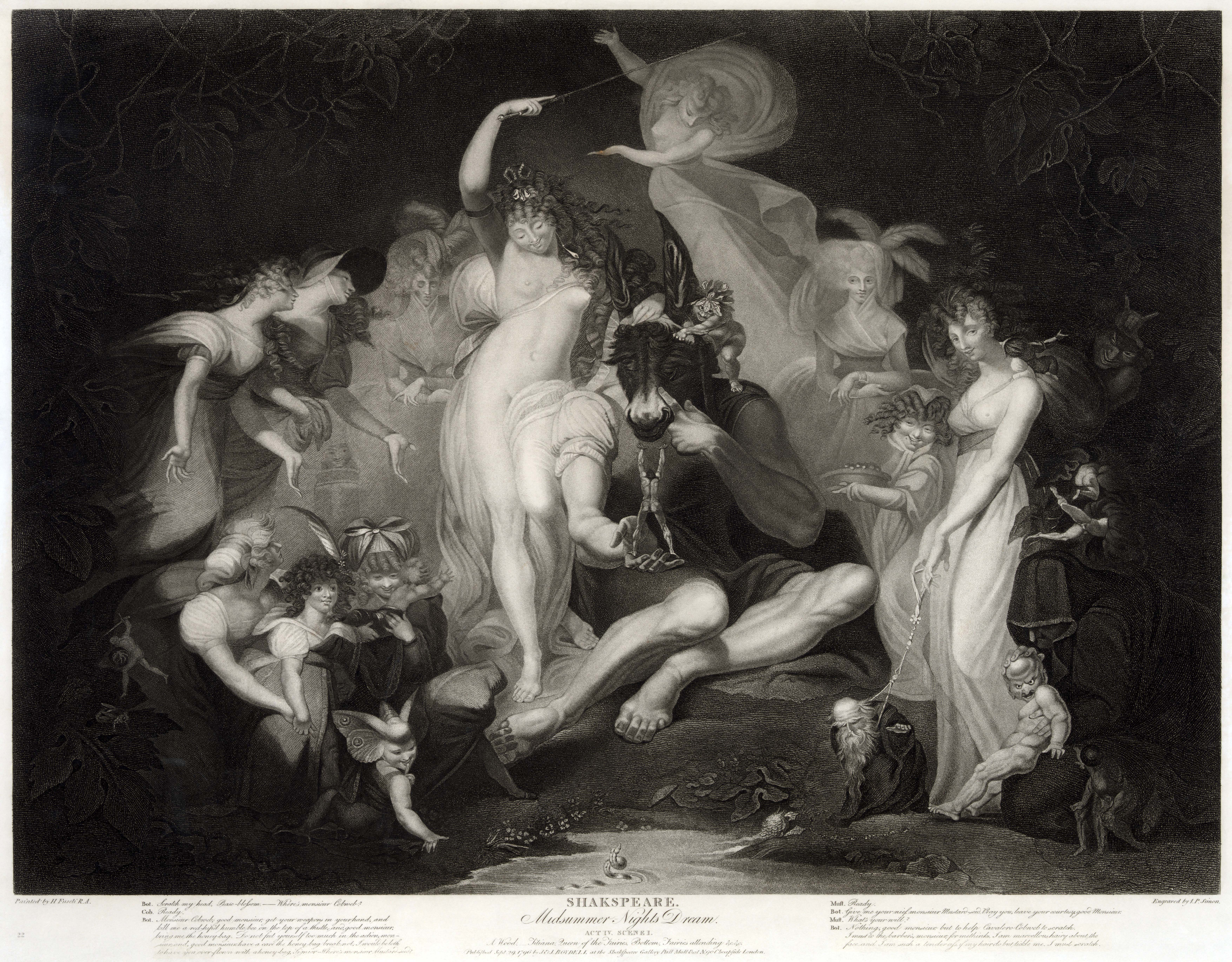 "Midsummer Nights Dream Act IV Scene I--A wood - Titiania [i.e., Titania], queen of the fairies, Bottom, fairies attending & etc." engraving